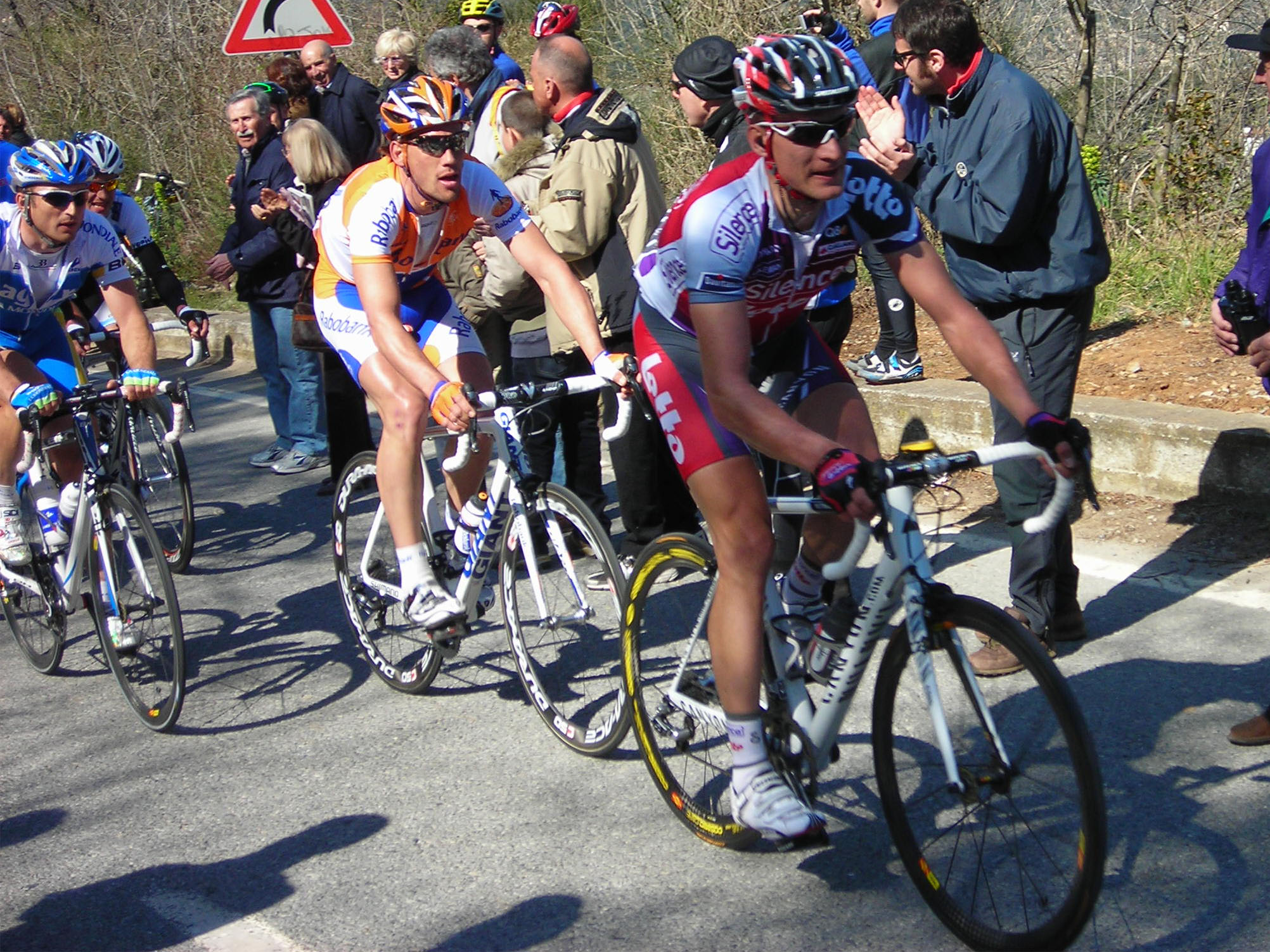 Sebastian Lang, Maarten Tjallingii and Yuriy Krivtsov (from right to left)